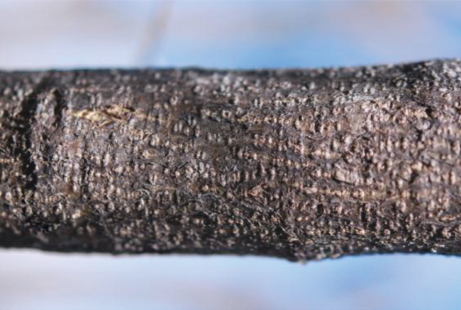 Psoralea margaretiflora, main stem wood